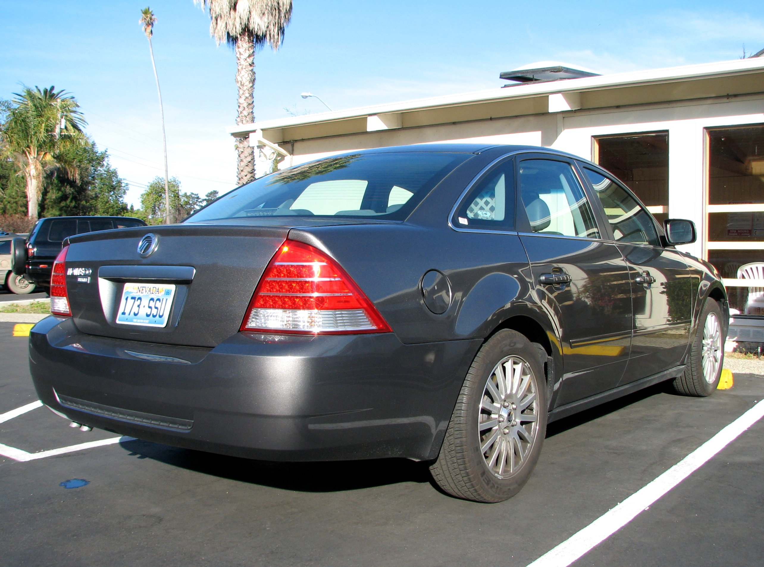 2005 Mercury Montego Premier - sister-car of the Ford Five Hundred. It was our rental for two weeks. I was not too sure about it but it grew on me after a few thousands of miles...